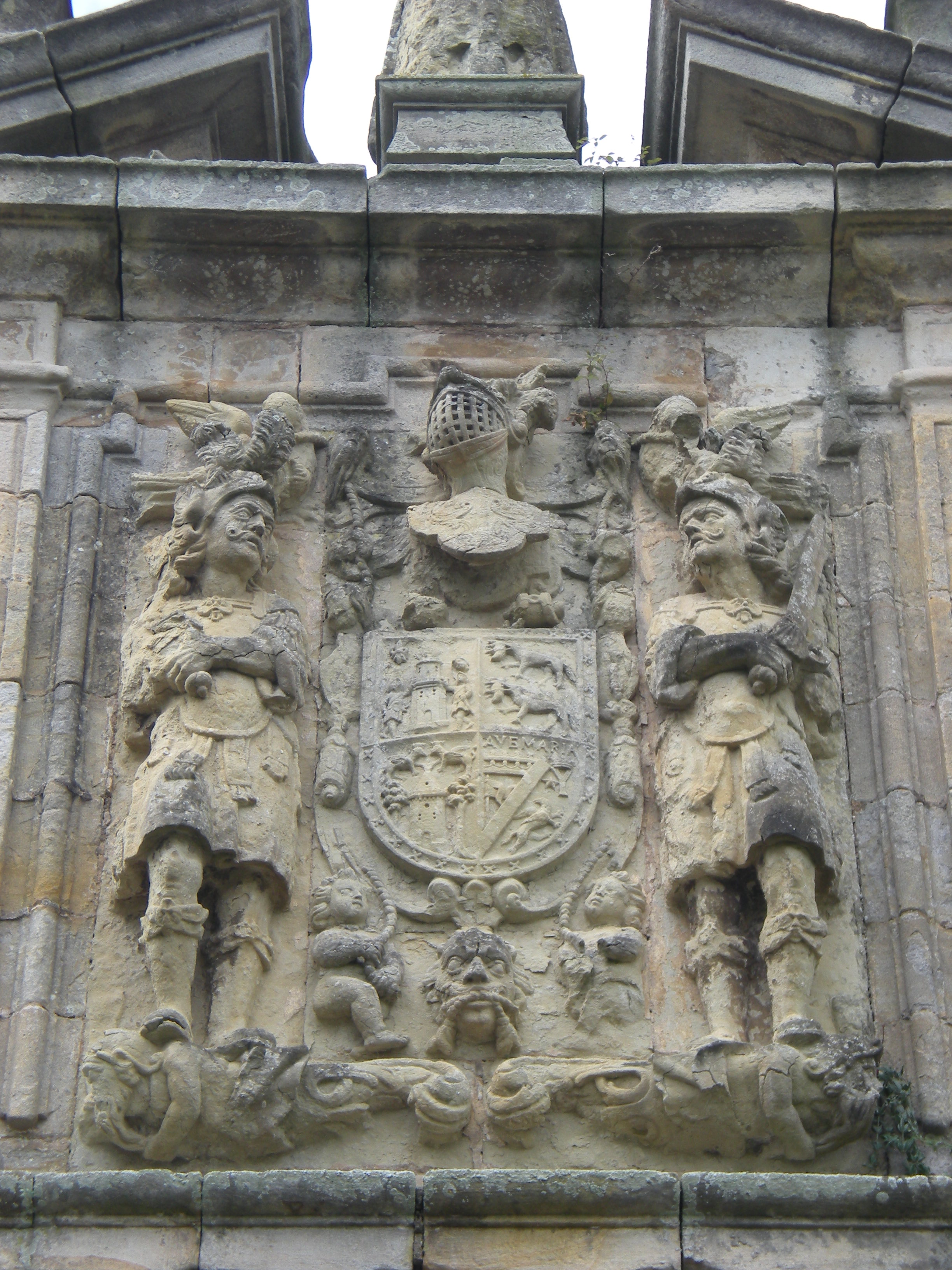 Cort of Arms over the gate at Los Cuetos, displaying the arms of Cuetos, Haro, Riva and Agüero